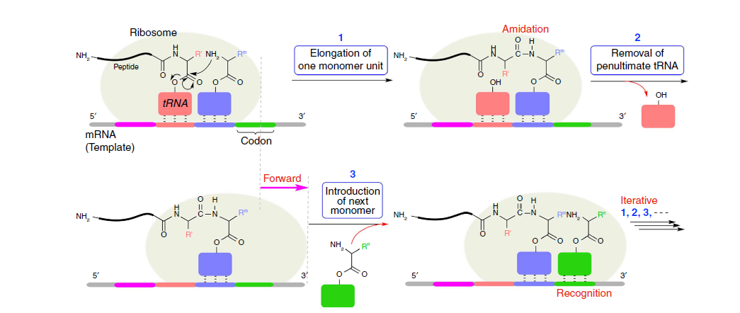 An illustration of transcription and translation process